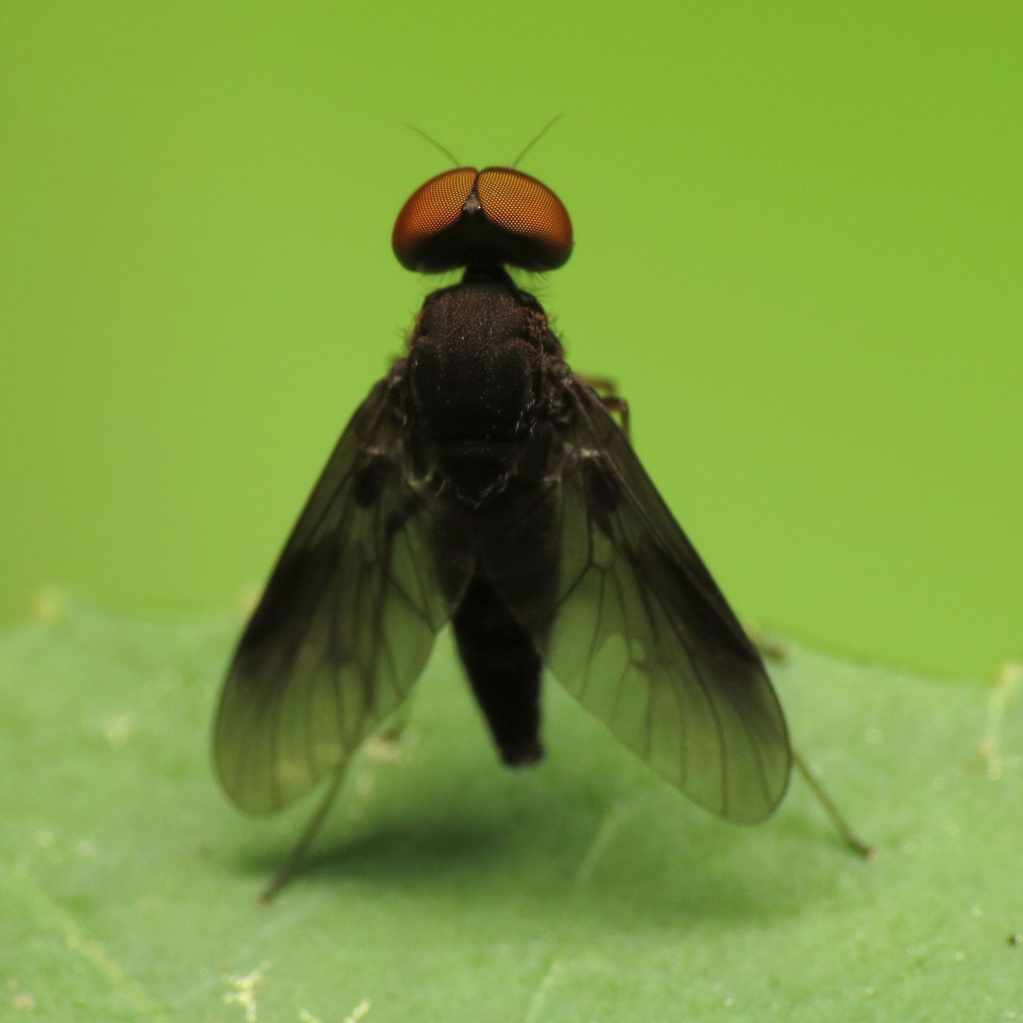 Chrysopilus quadratus. Huntley Meadows, Fairfax County, Virginia, USA. 27 May 2012.